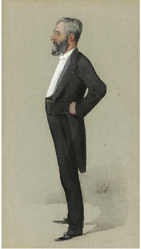 Caricature of Arthur Bower Forwood MP. Accompany biography in Vanity Fair read "Pining to achieve something more than local renown, he proved himself so good and so discreet a Tory organiser that his opponents, less cynically than respectfully, dubbed him 'The Young Napoleon'.... By sticking closely to his desk, and by never going to sea, he has acquired a reputation for solidity and business aptitude.... He is more practical than polished in his manners".